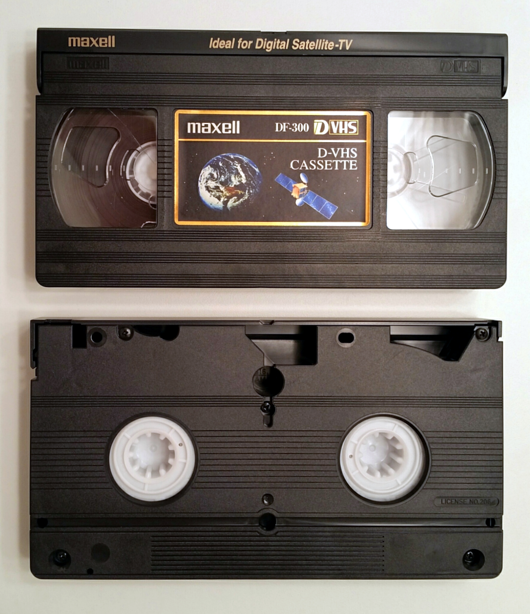 example of D-VHS video cassette